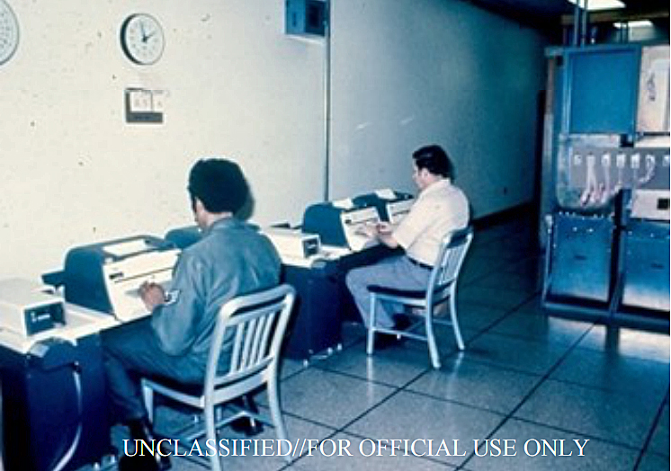 Operators at the NSA's Yakima Research Station, which was part of the ECHELON program. Probably 1970s